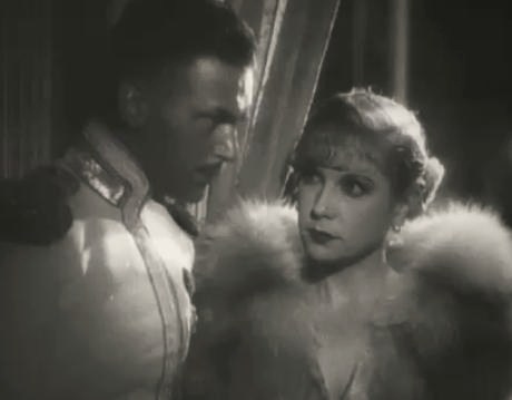 Douglas Fairbanks, Jr. & Lilyan Tashman in Scarlet Dawn - trailer (cropped screenshot)